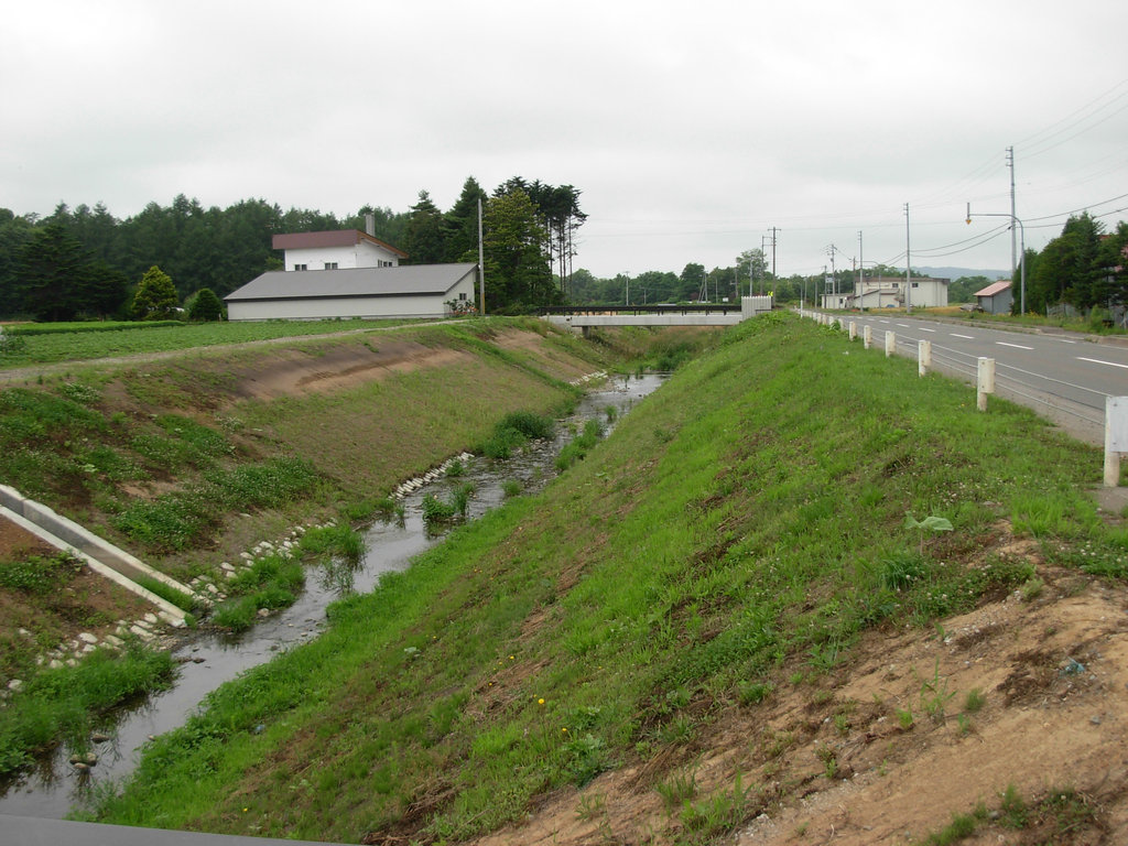 Yarikirenai river (Hokkaido, Japan)